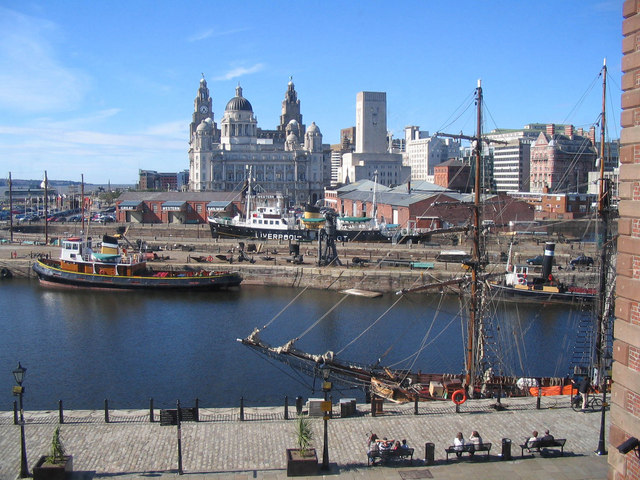 Liverpool - The Three Graces seen from Maritime Museum Port of Liverpool Building, Cunard Building & Royal Liver Building, seen looking across Canning Half-tide Dock from Maritime Museum.